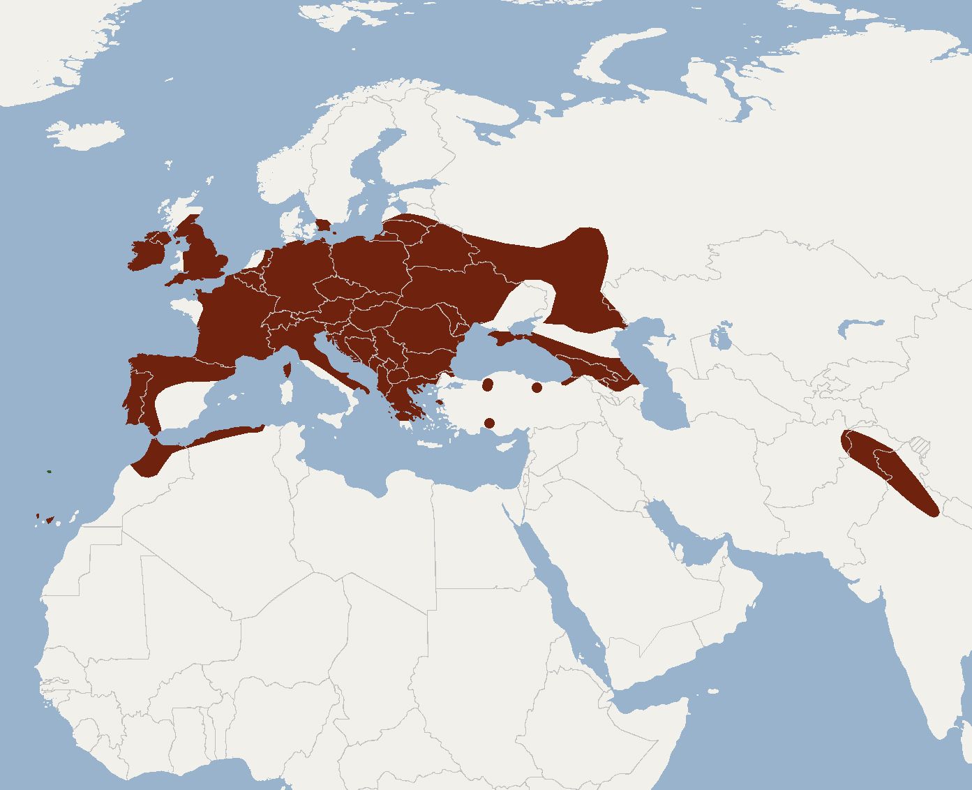 according to Subspecific range: N.l.leisleri in brown, N.l.verrucosus in green